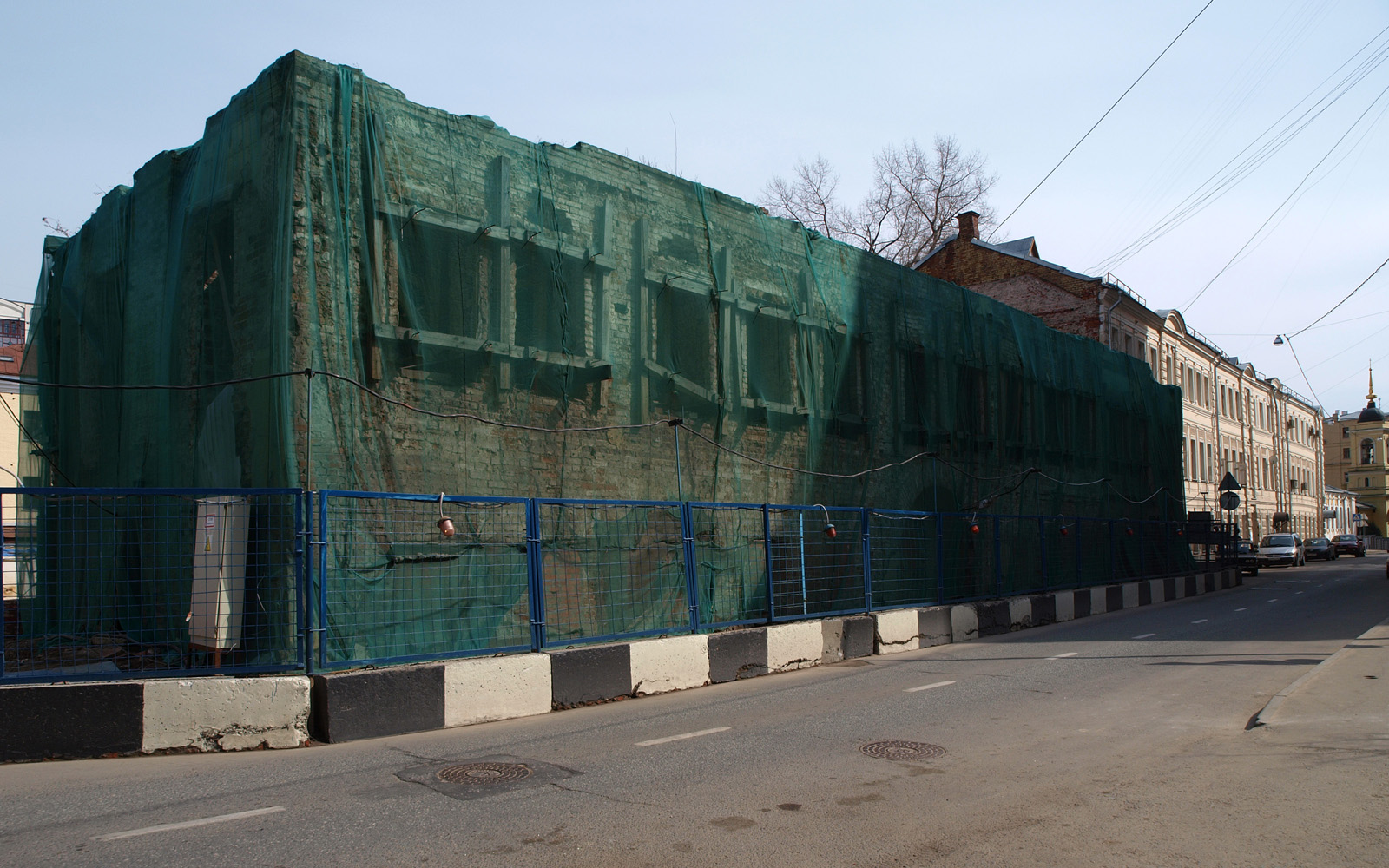 Bolshoy Afanasyevsky Lane, Moscow